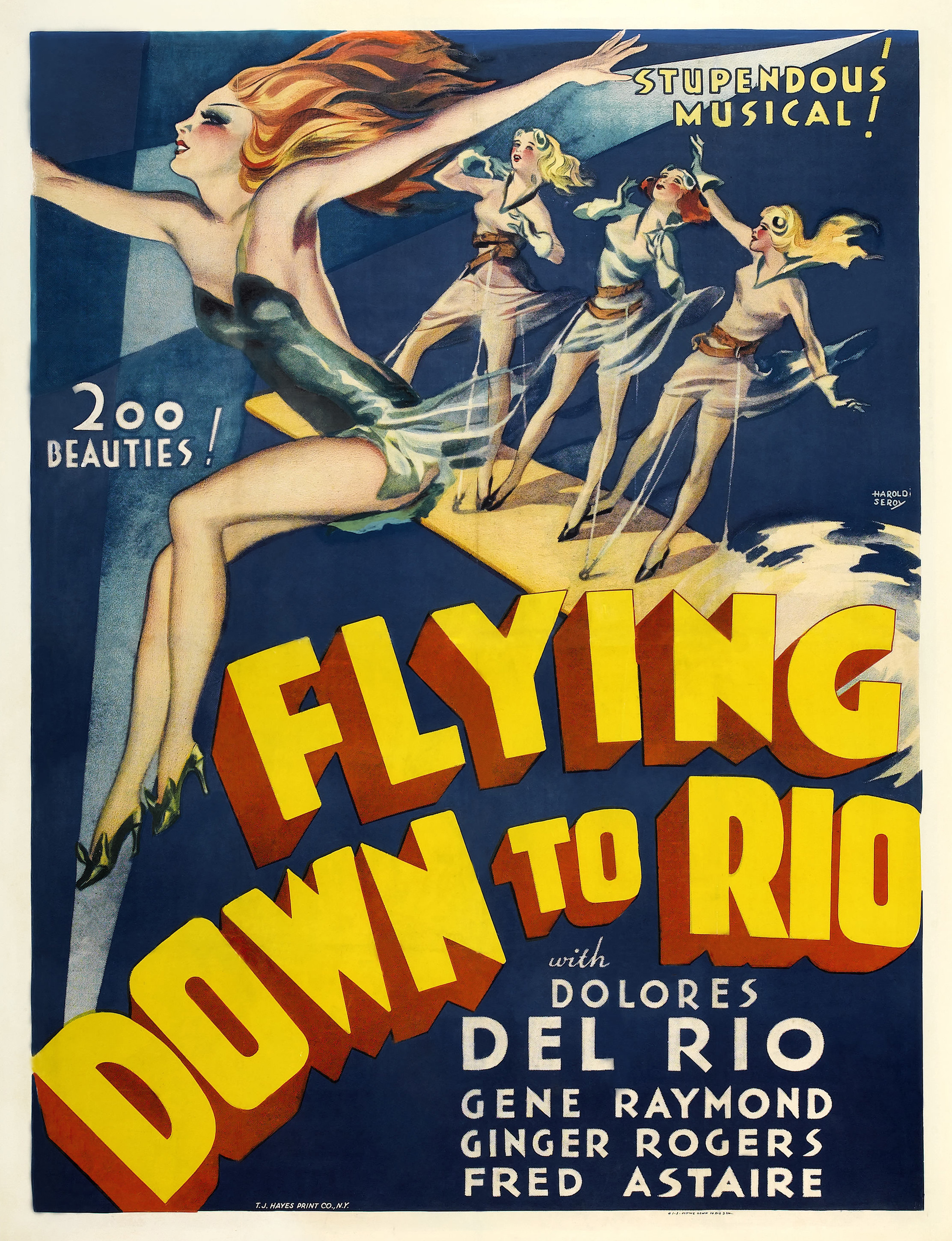 Film poster for Flying Down to Rio, the first film to pair Fred Astaire and Ginger Rogers.